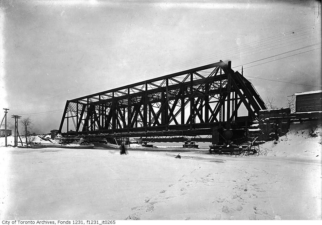 View of railway bridge over Humber in 1910. This bridge was later relocated to Bathurst Street and is in use today north of Fort York